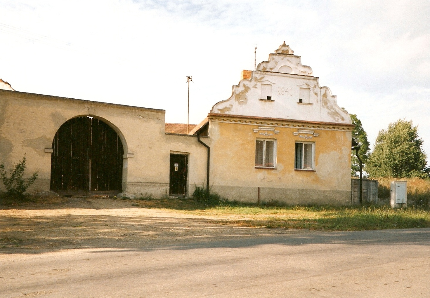 Skály village in Písek district, Czech Republic. Homestead in the "country baroque" style on the village common.